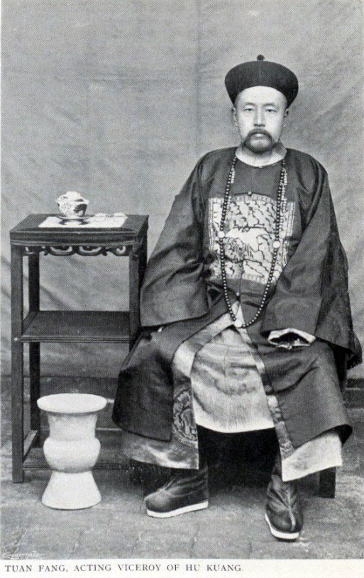 Duan Fang (Tuan Fang), Manchu-Chinese Politician